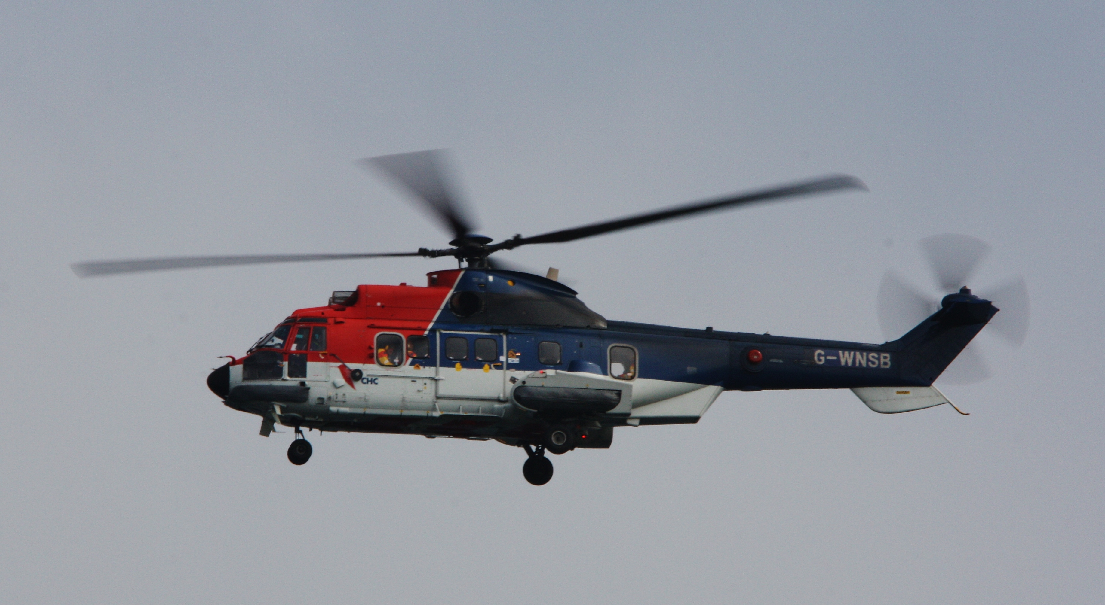 Over Sumburgh Airport July 22nd 2013